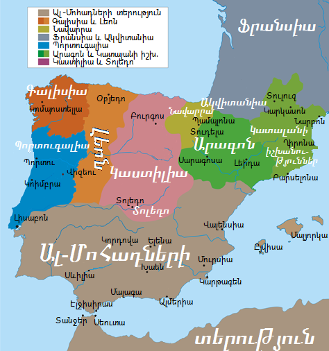 This map show Al-Andalus (Almohades) and European Christian kingdoms. 12th-13th centuries. It´s made from "The Historical Atlas by William R. Shepherd, 1926".